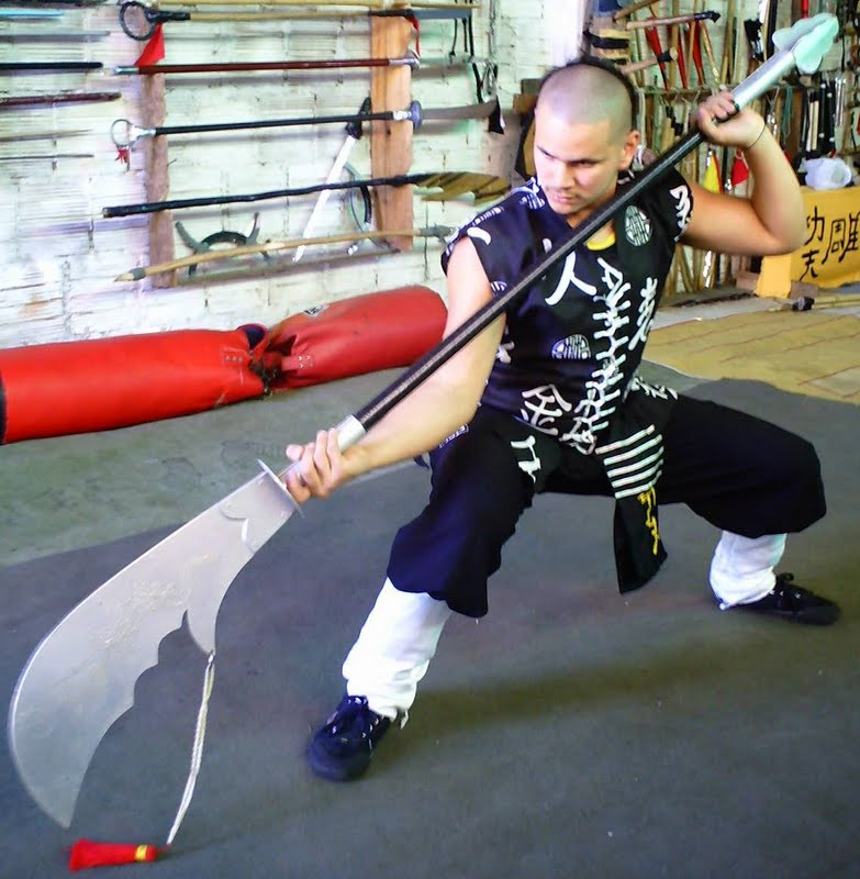 Si-Fú A. Gerez com Kwan Dao